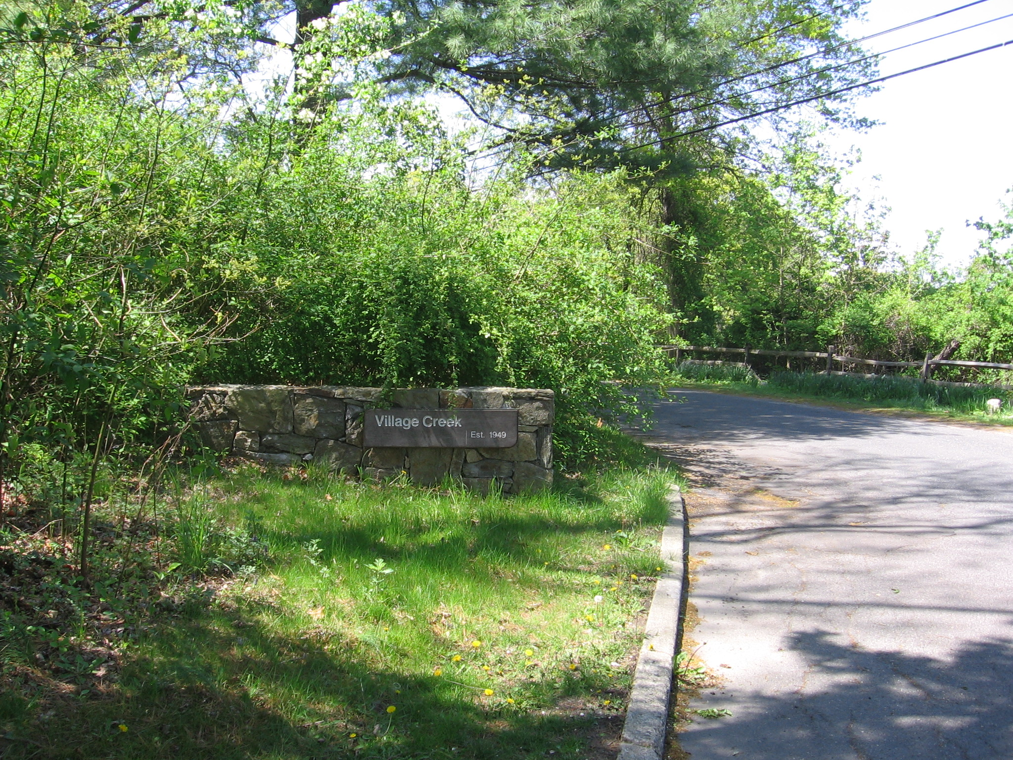 The entrance to Village Creek where Dock Road (visible) branches off from Woodward Avenue (behind photograper). View looking west.